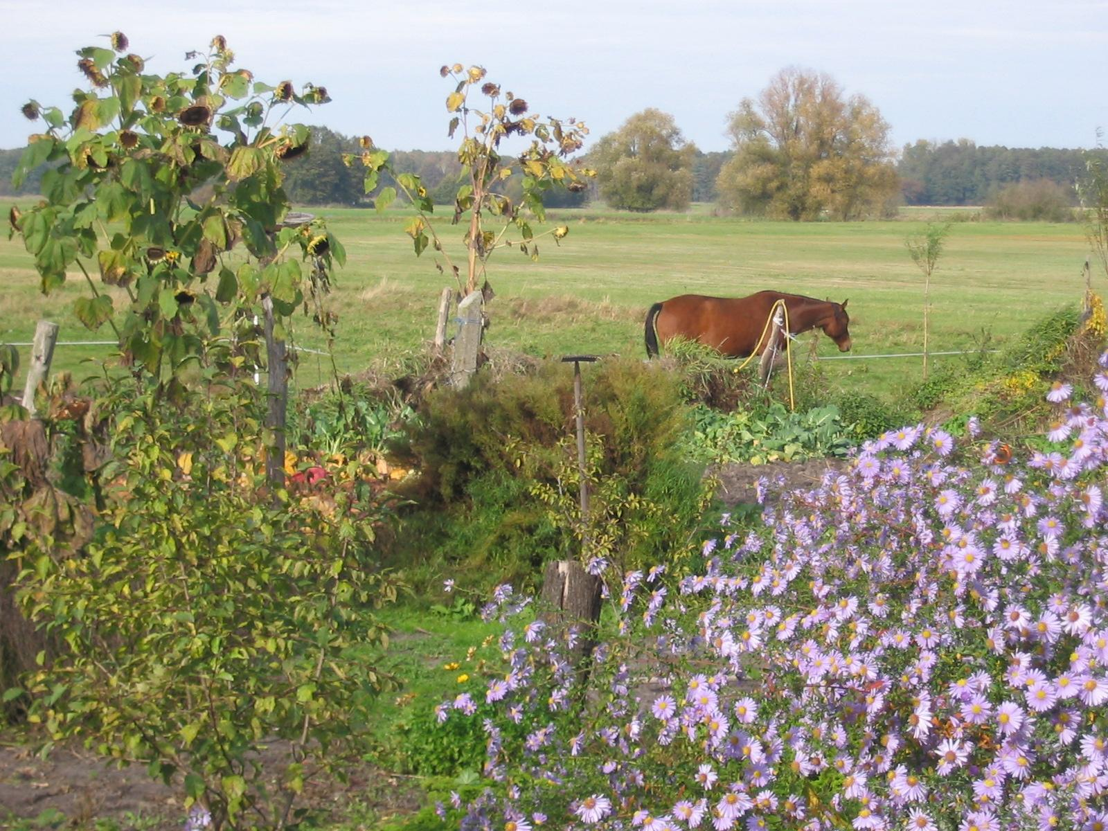 Lowland of the Nuthe-Nieplitz Nature Park in Stücken. Stücken is a part of Michendorf in the district Potsdam-Mittelmark, state Brandenburg, Germany.